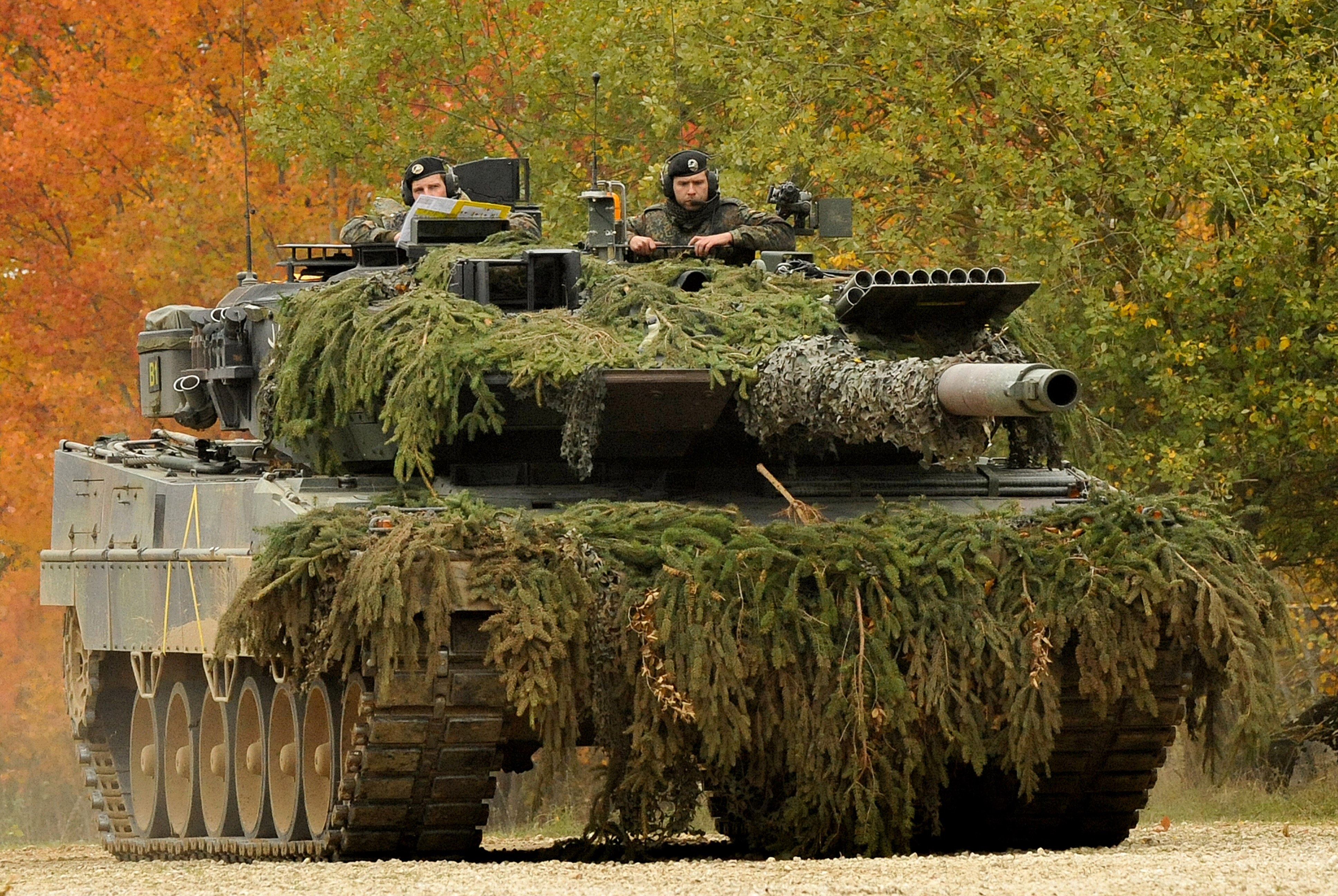 A German Army Leopard 2A6 tank, assigned to 104th Panzer Battalion, moves through the Joint Multinational Readiness Center during Saber Junction 2012 in Hohenfels, Germany, Oct. 25. The U.S. Army Europe's exercise Saber Junction trains U.S. personnel and 1800 multinational partners from 18 nations ensuring multinational interoperability and an agile, ready coalition force.